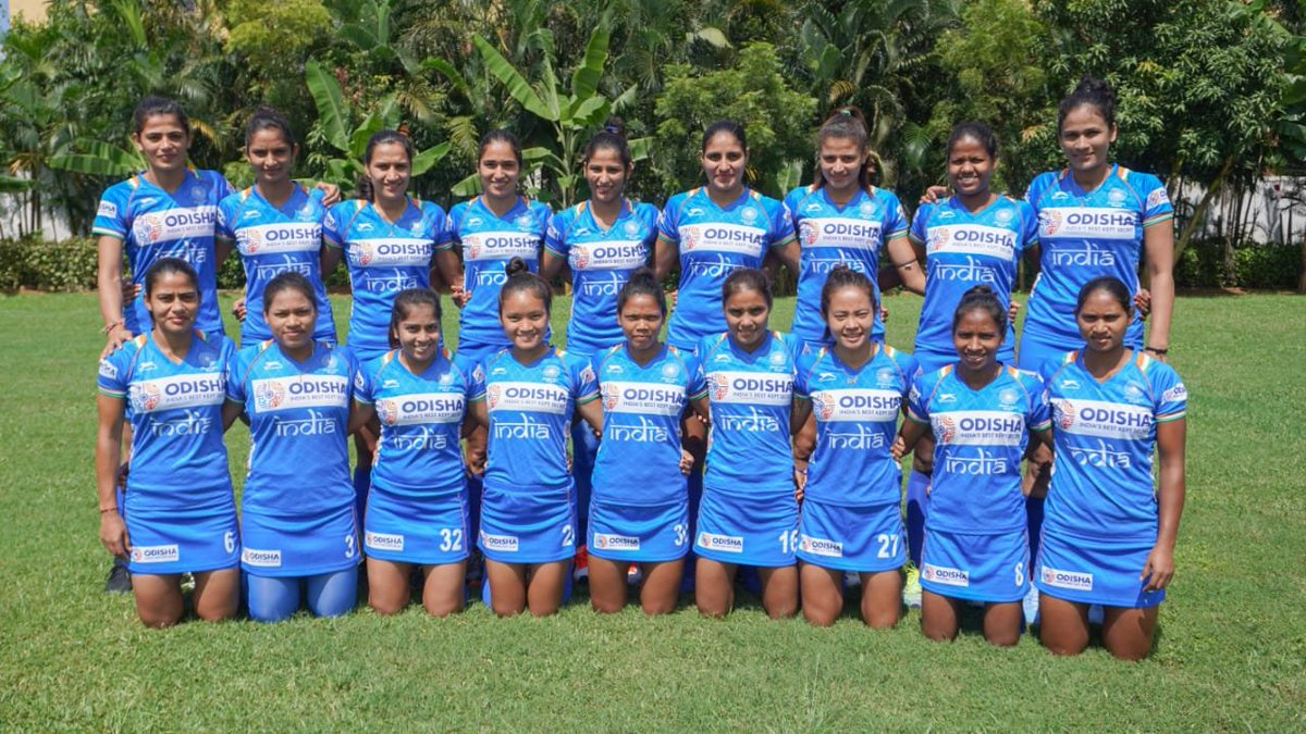 Tweet Text: Congratulate hockey players from #Odisha, Deep Grace Ekka, Lilima Minz and Namita Toppo for making it to 18-Member Indian Women's Hockey Team for the @FIH_Hockey Olympic Qualifiers to be played at #KalingaStadium, #Bhubaneswar. Best wishes to be team. OdishaForSports